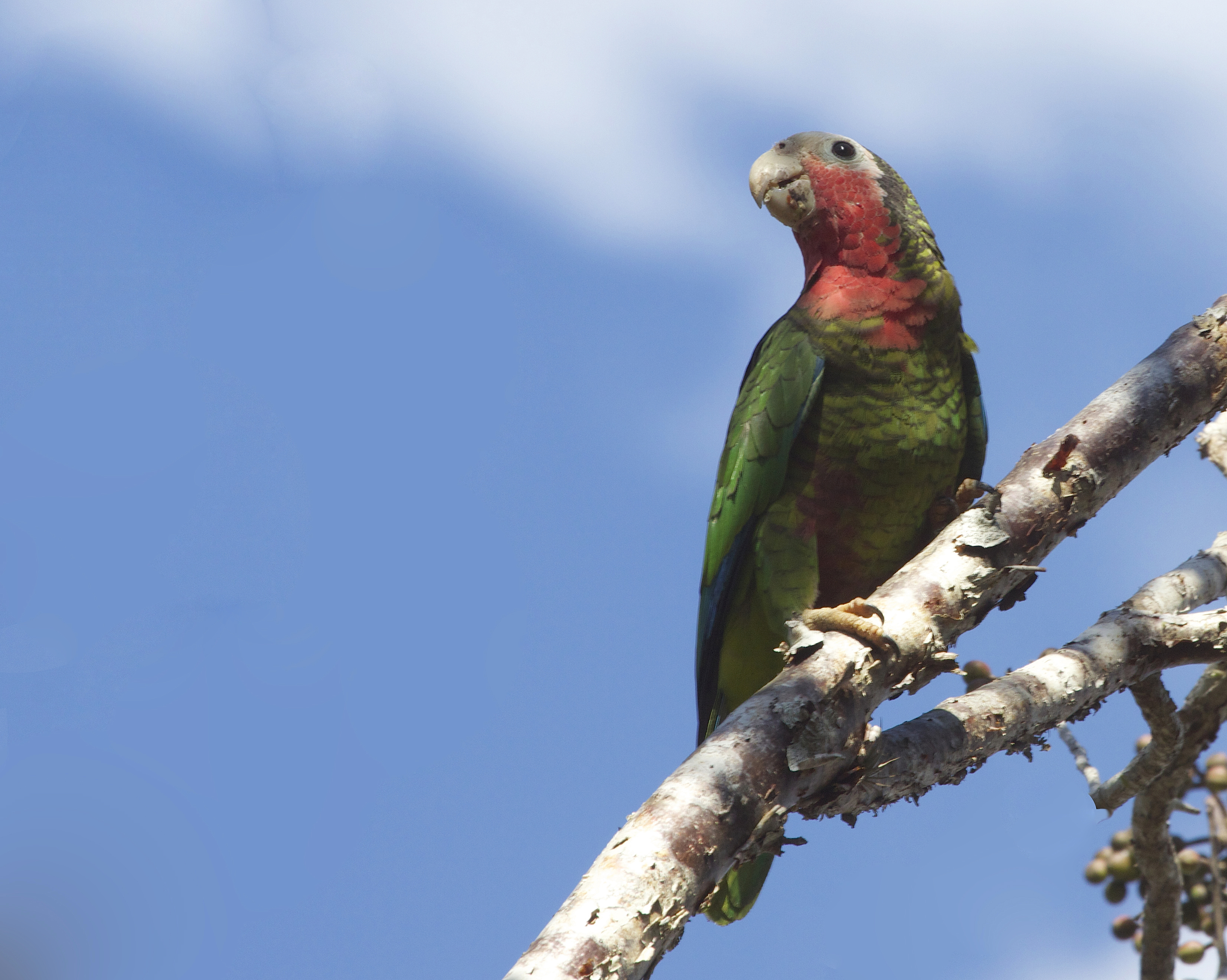 A Cuban Amazon in Cuba.